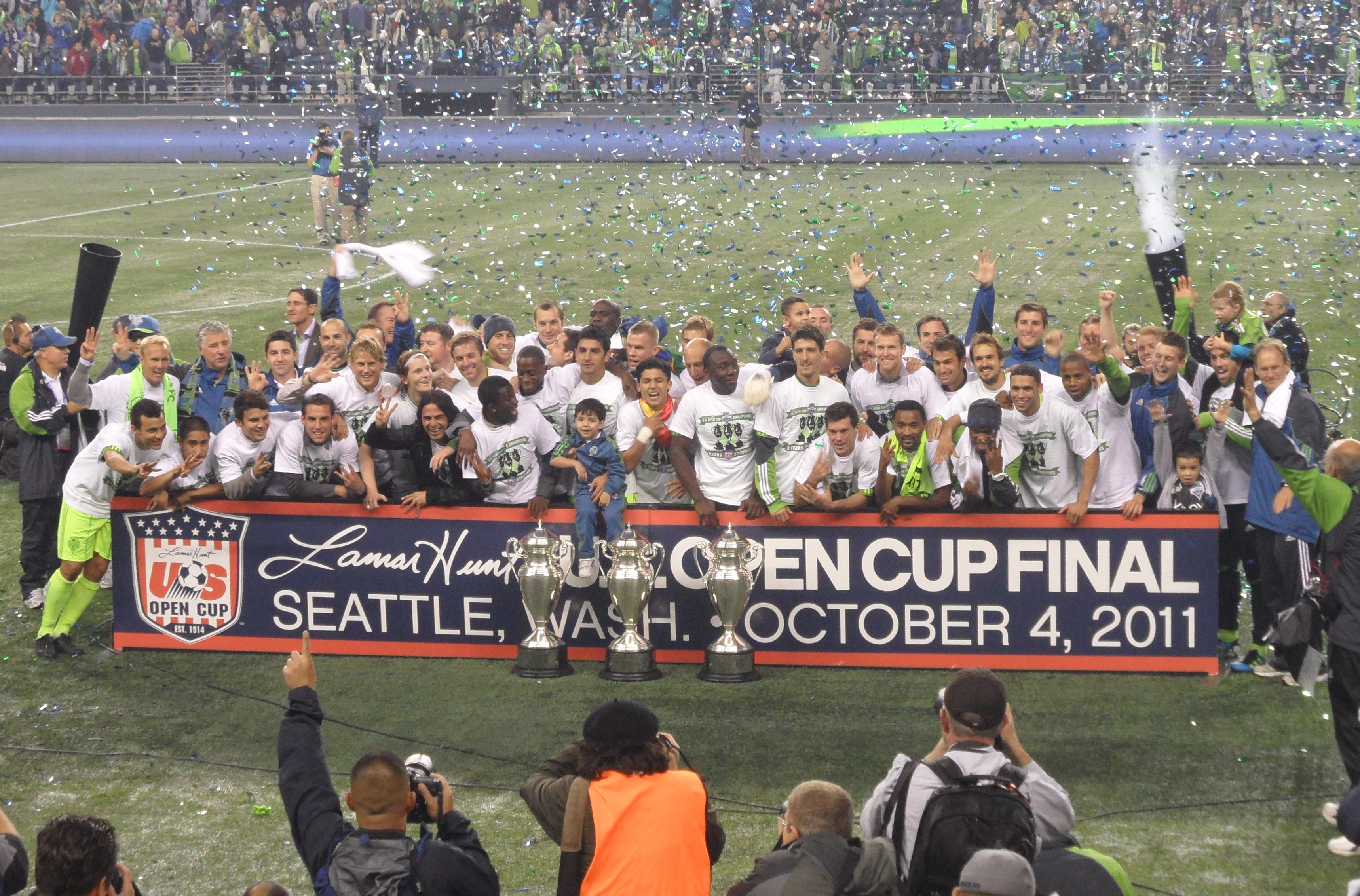 Photo of the Seattle Sounders FC after the 2011 U.S. Open Cup Final with their 3 consecutive champoinship trophies.